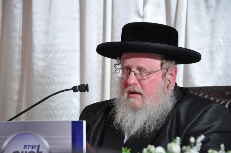 Rabbi Yosef David Teitelbaum Sasov evening in favor of its institutions - 2012